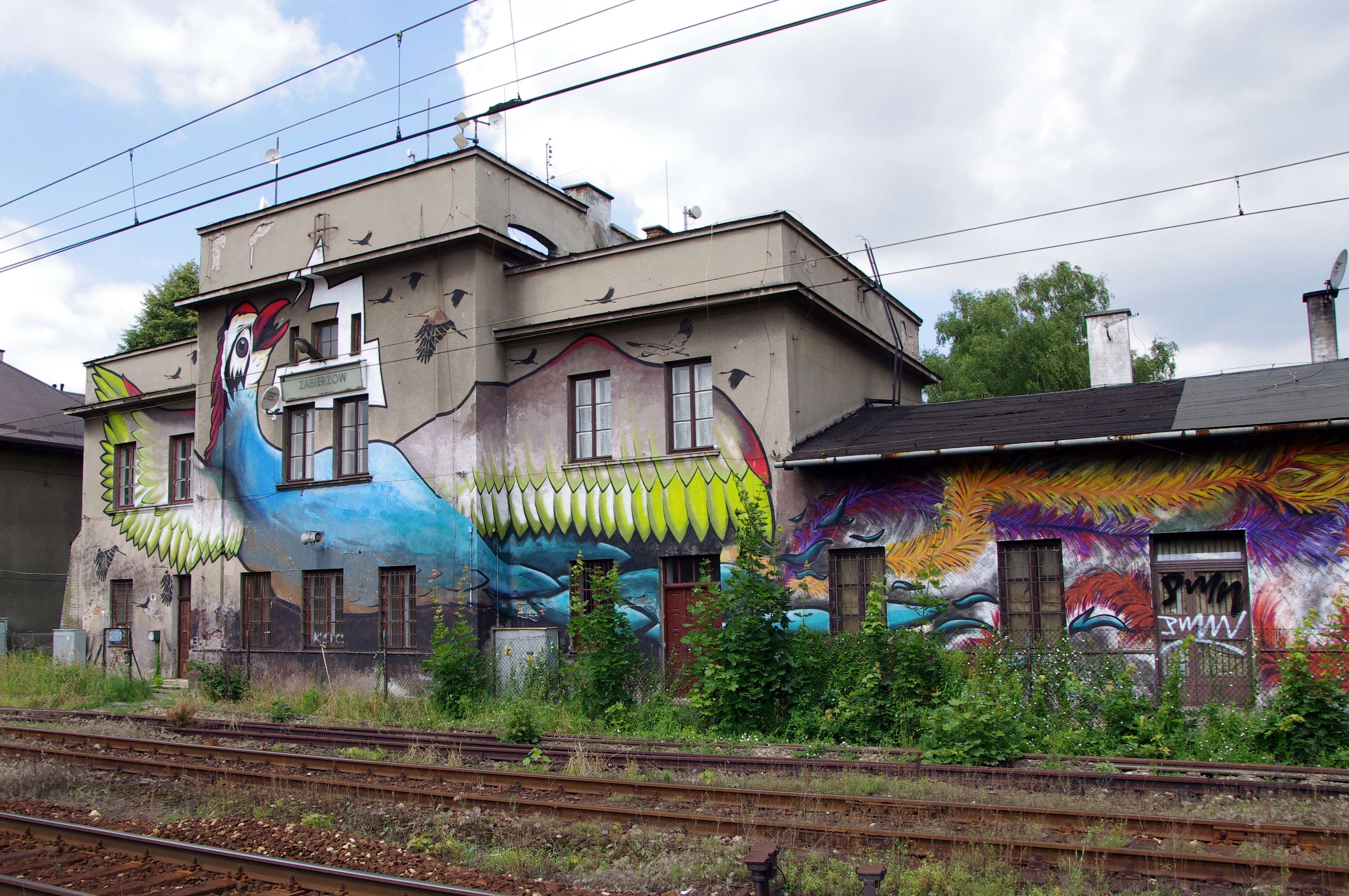 Zabierzów railway station